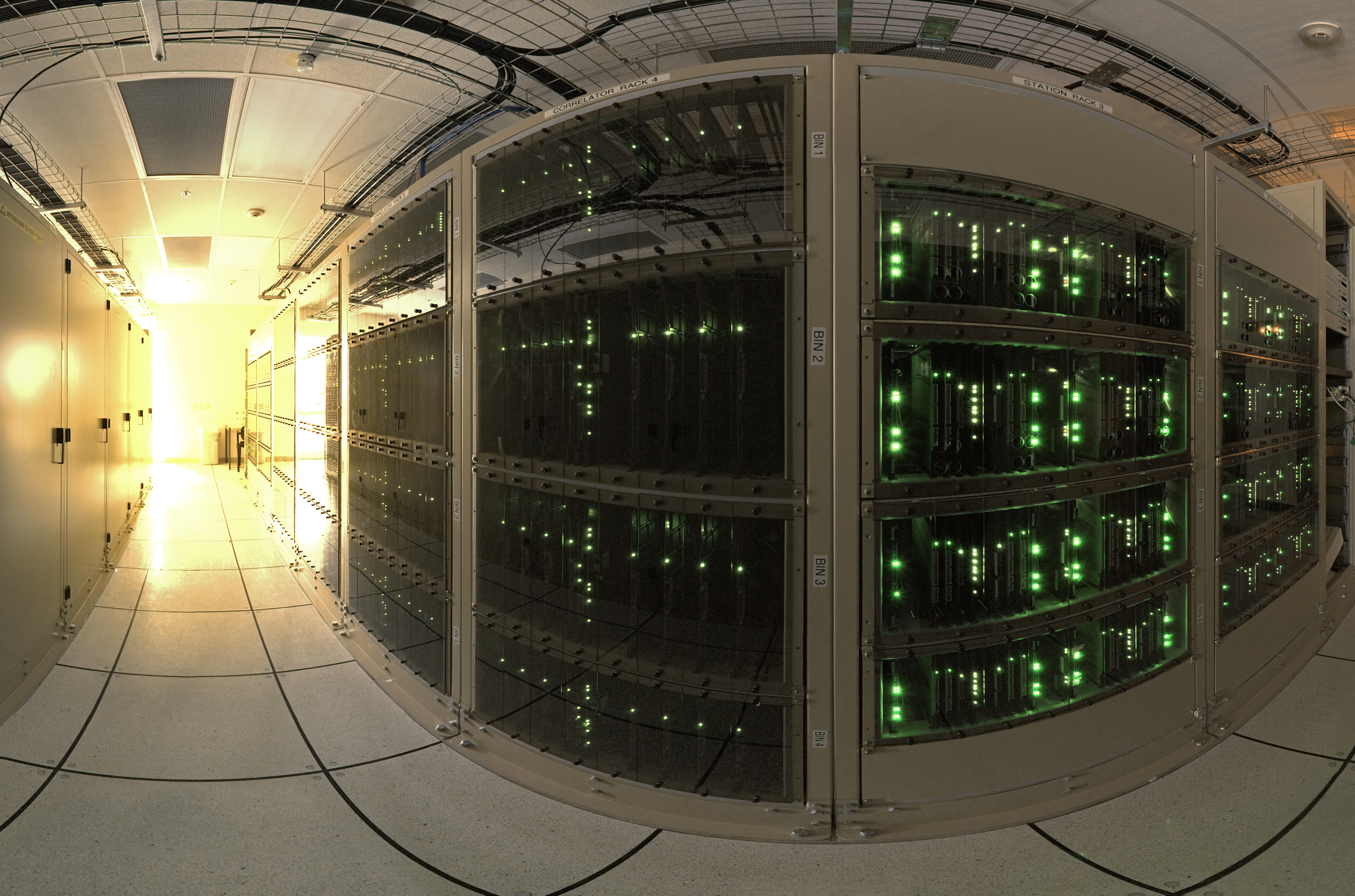 The ALMA correlator, one of the most powerful supercomputers in the world, has now been fully installed and tested at its remote, high altitude site in the Andes of northern Chile. This wide-angle view shows some of the racks of the correlator in the ALMA Array Operations Site Technical Building. This photograph shows one of four quadrants of the correlator. The full system has four identical quadrants, with over 134 million processors, performing up to 17 quadrillion operations per second.